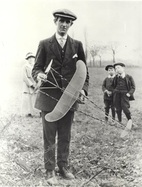 Sydney Camm seen here at Windsor Model Aeroplane Club during Circa 1915. Looking on is what is probably his wife and two young sons. His favourite hobby was making model aircraft, here he is no doubt thrilling his boys with his stories of his inventions.